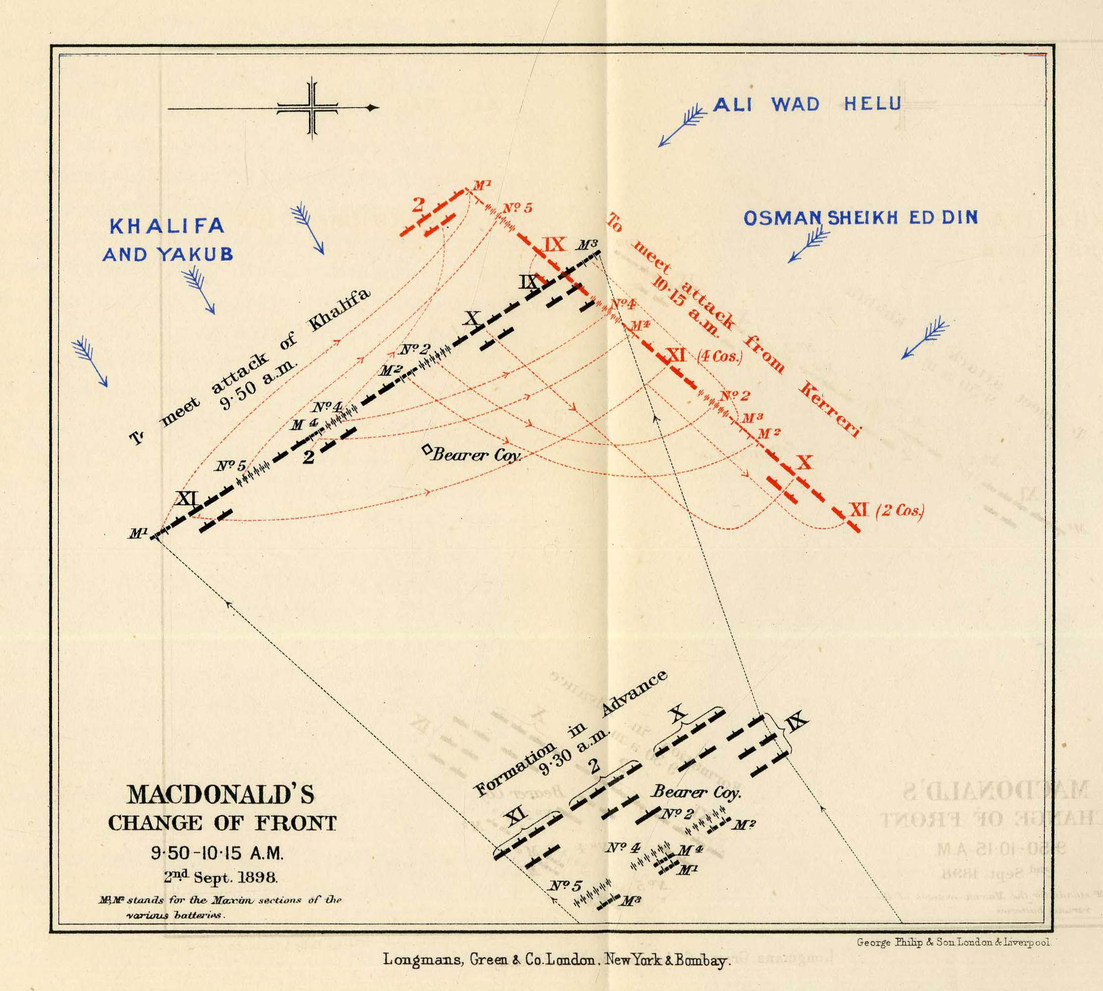 The Battle of Omdurman MacDoands Change of Front 2nd September, 9:50-10:15 am